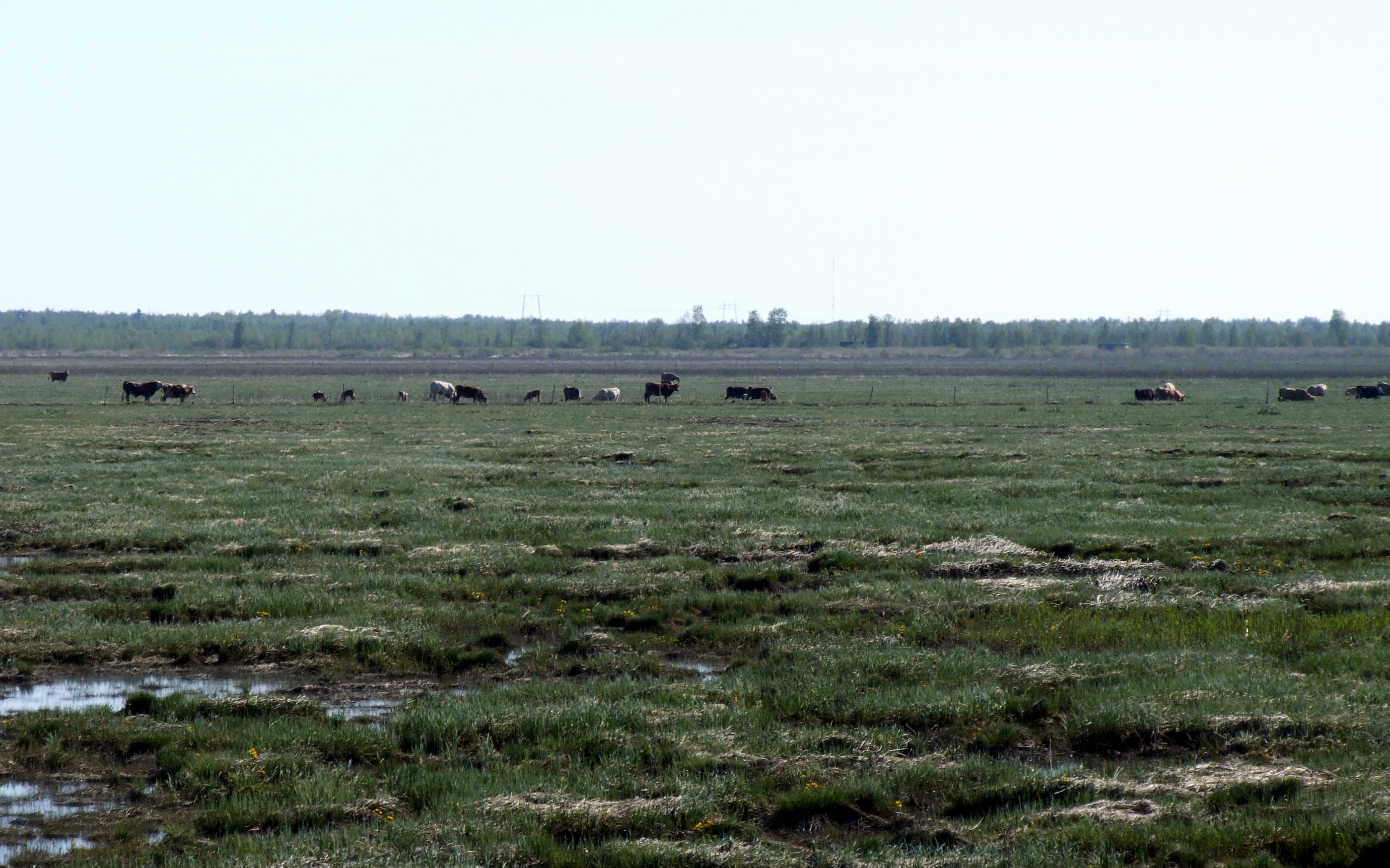 Coastal meadows of Liminka are grazed by cattle.